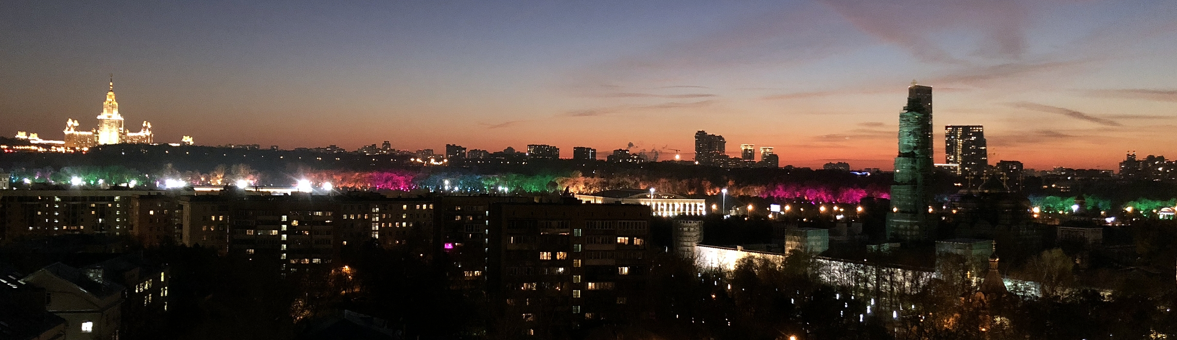 Light pollution in nature protected area in Moscow